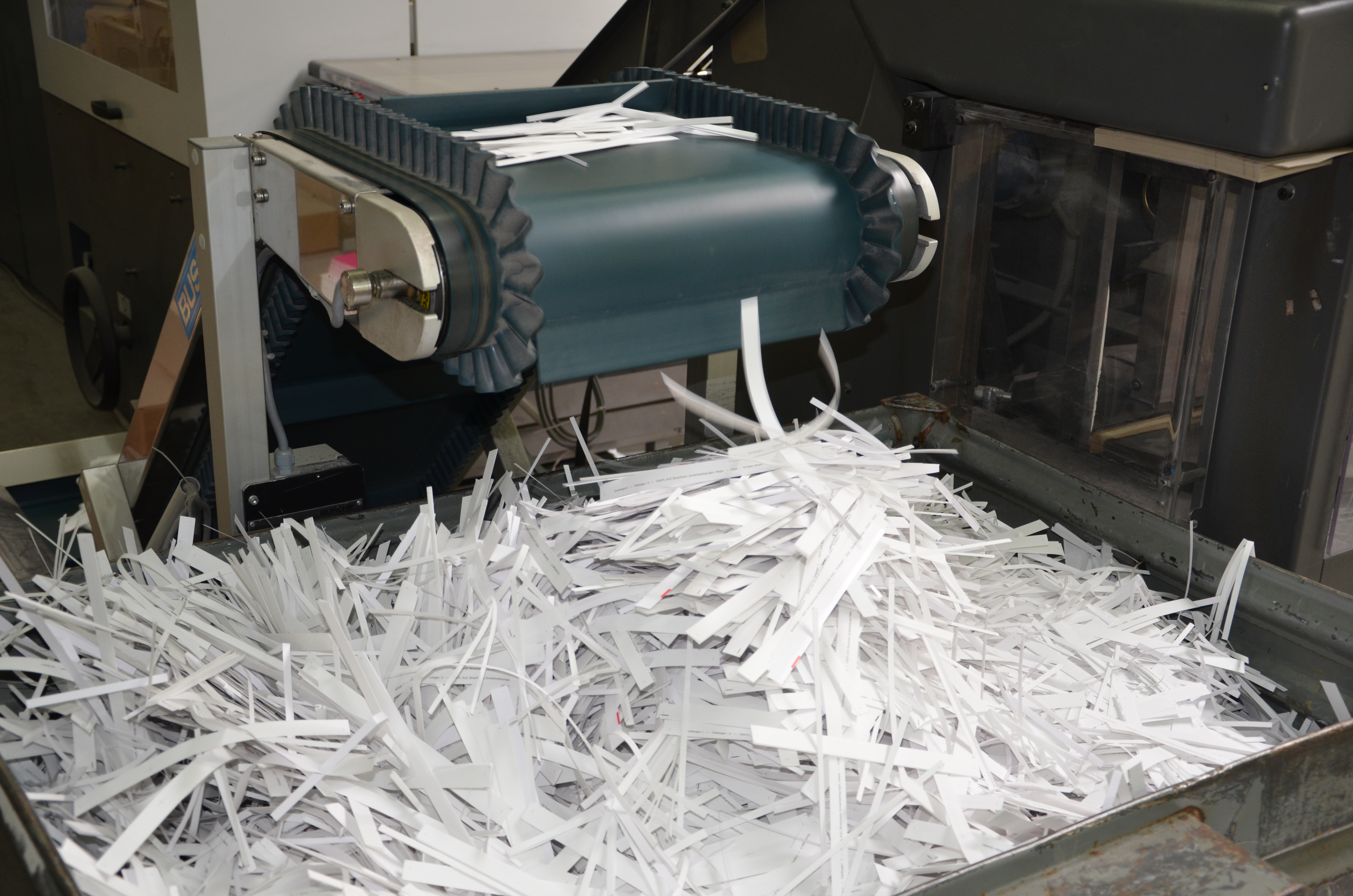 Ingrade recovered paper (maculature) in a Print Office